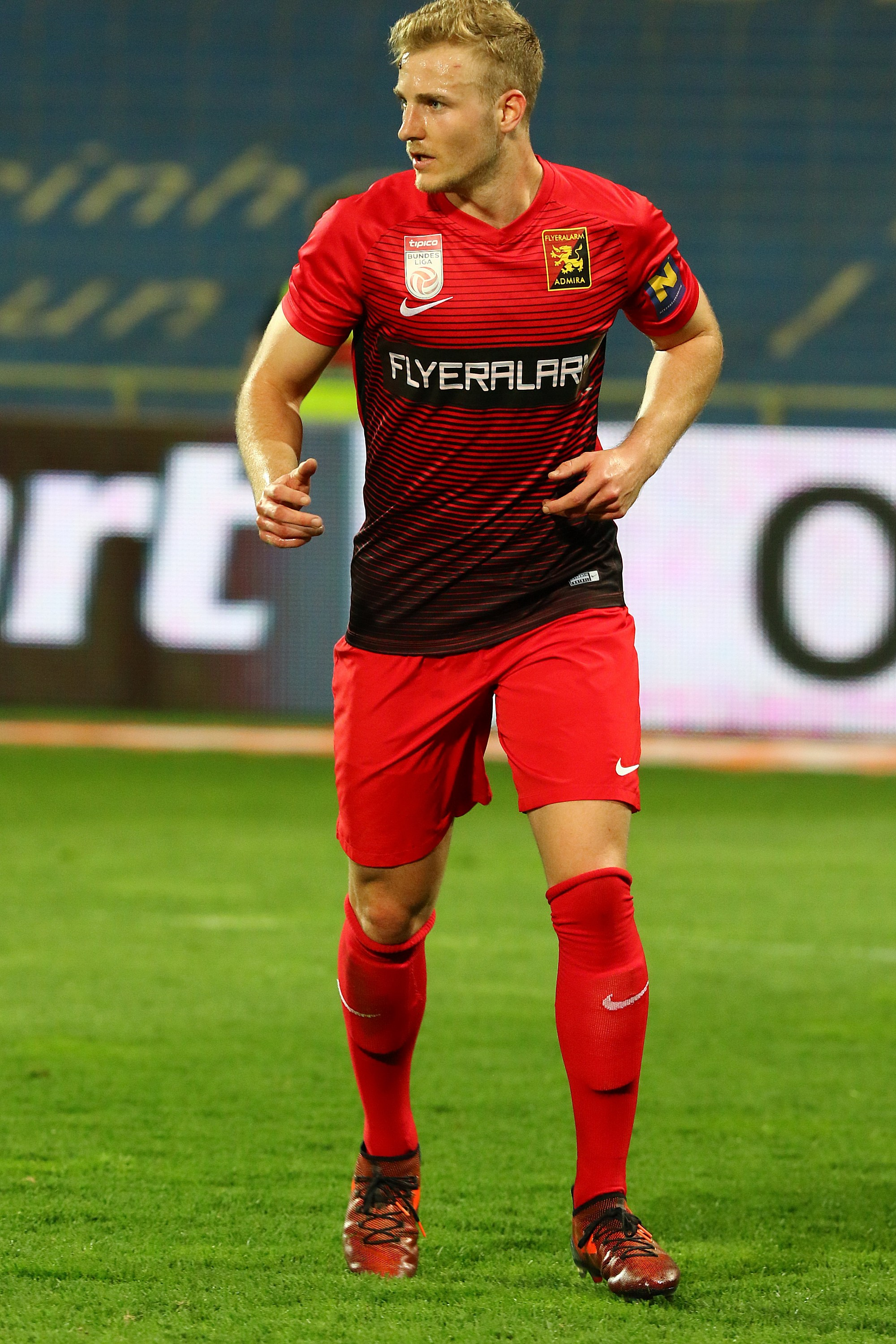 Championshipmatch of the Austrian Bundesliga 2017–18 FC Admira Wacker Mödling (red shirts) vs. FC Red Bull Salzburg (white shirts) 2-6 (1-3) at 2018-04-15 in the Bundesstadion Südstadt in Maria Enzersdorf. – The photo shows Jonathan Scherzer (FC Admira Wacker Mödling).